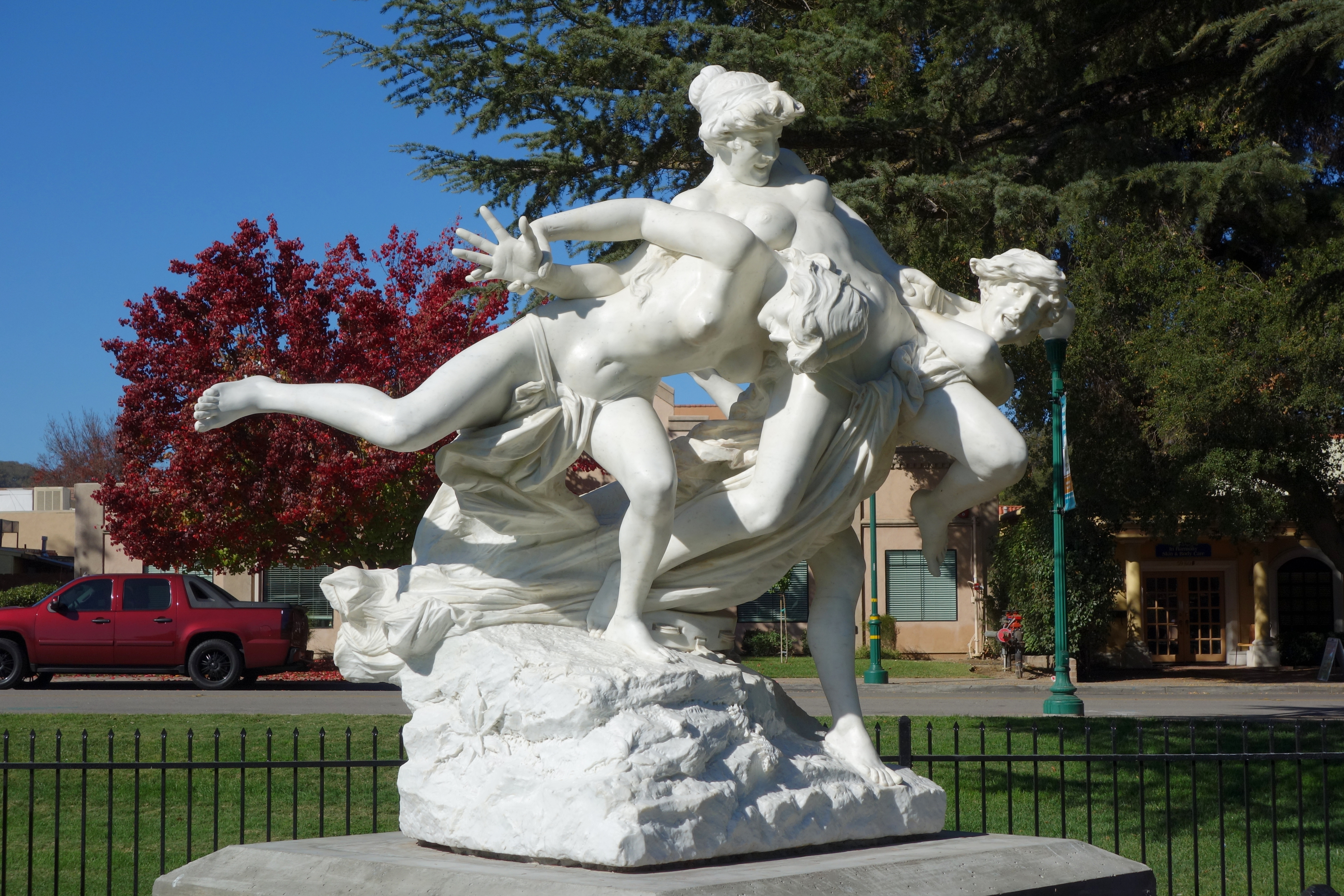 "Wrestling Bacchantes" by Aristide Petrilli - Sunken Gardens - Atascadero, California, USA. Although there has been some mystery about the sculptor, there is clear evidence that it was sculpted by Aristide Petrilli (1868-1907) and exhibited in the 1904 World's Fair in St. Louise. (See [1].) This artwork is in the public domain because the artist died more than 70 years ago.